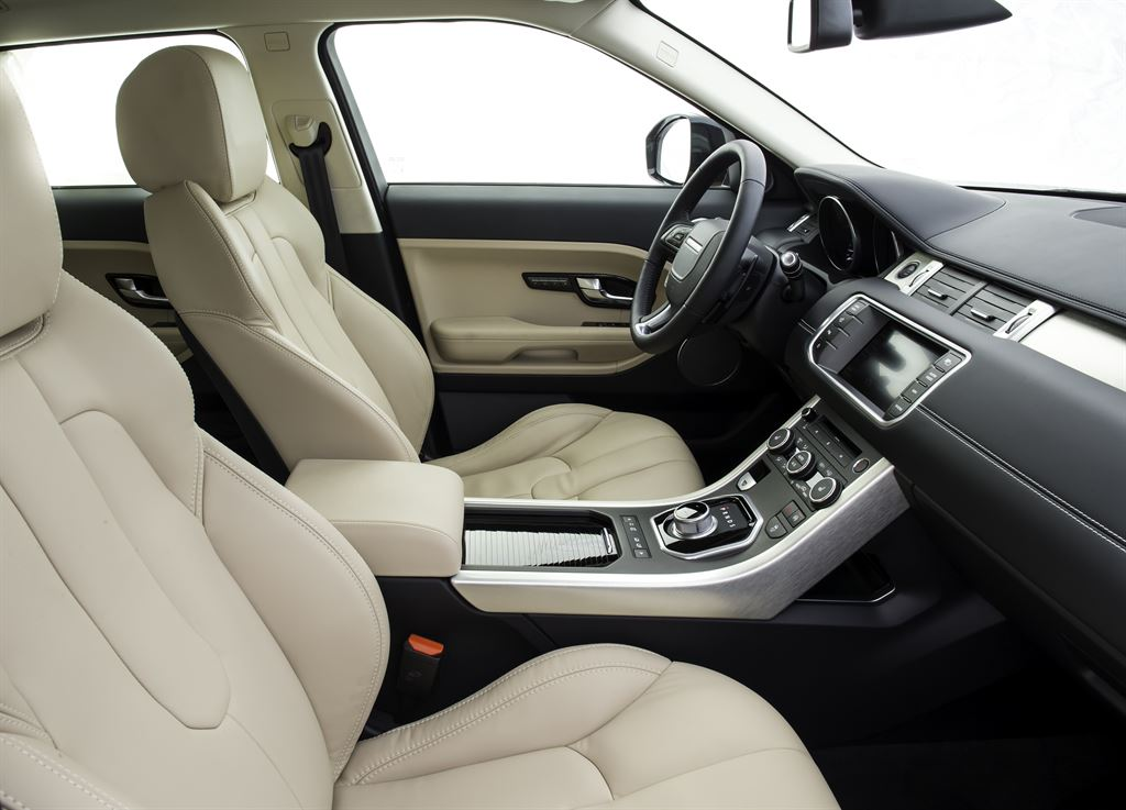 One of the most successful Land Rover vehicles ever made, the Range Rover Evoque, makes a further leap forward with the introduction of a host of new technologies. These enhancements lower fuel consumption by up to 11.4 percent and reduce CO2 emissions by up to 9.5 percent - depending on model - and bring a range of new comfort, convenience and connectivity features.